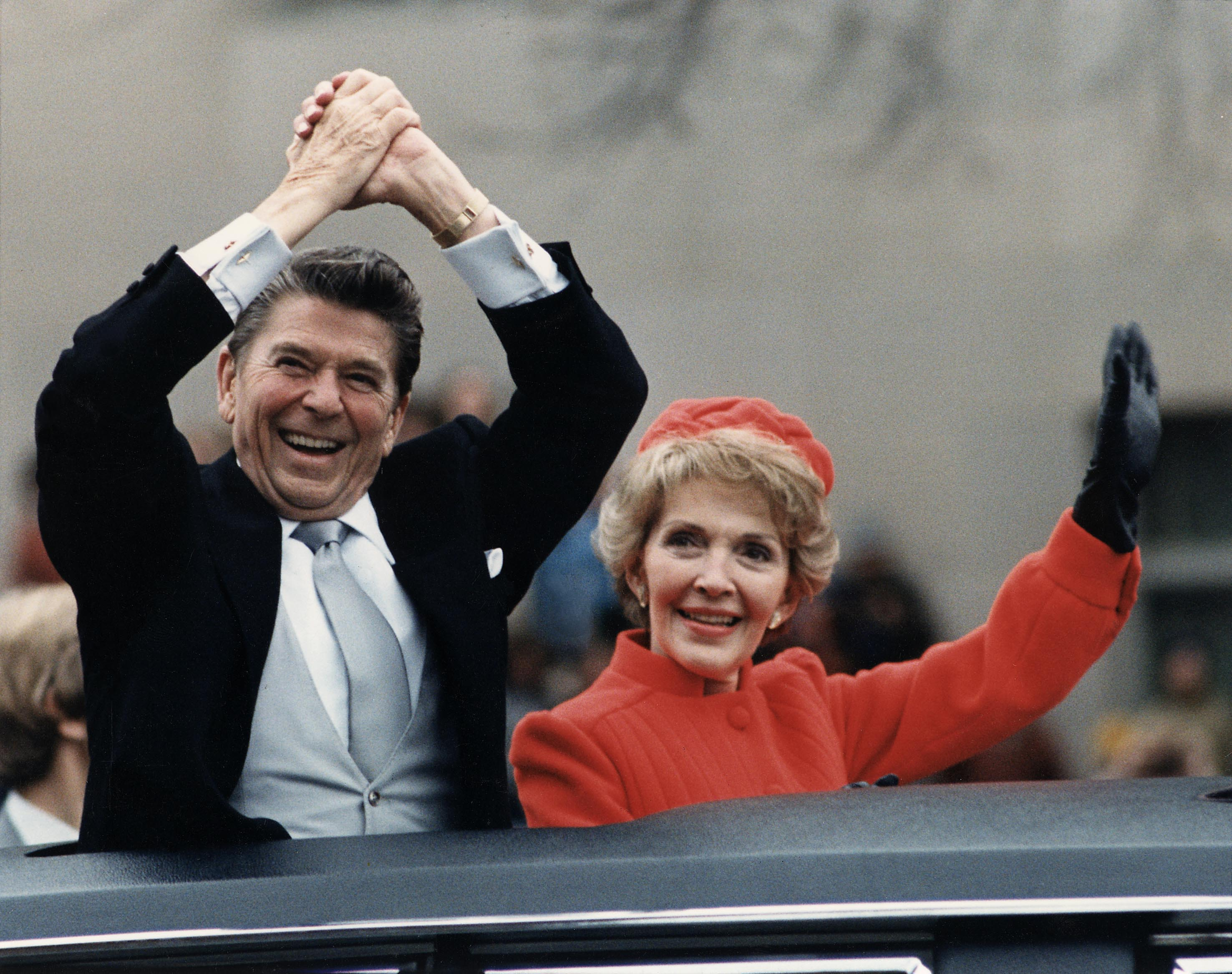 Ronald Reagan and Nancy Reagan waving from the limousine during the Inaugural Parade in Washington, D.C. on Inauguration Day, 1981.